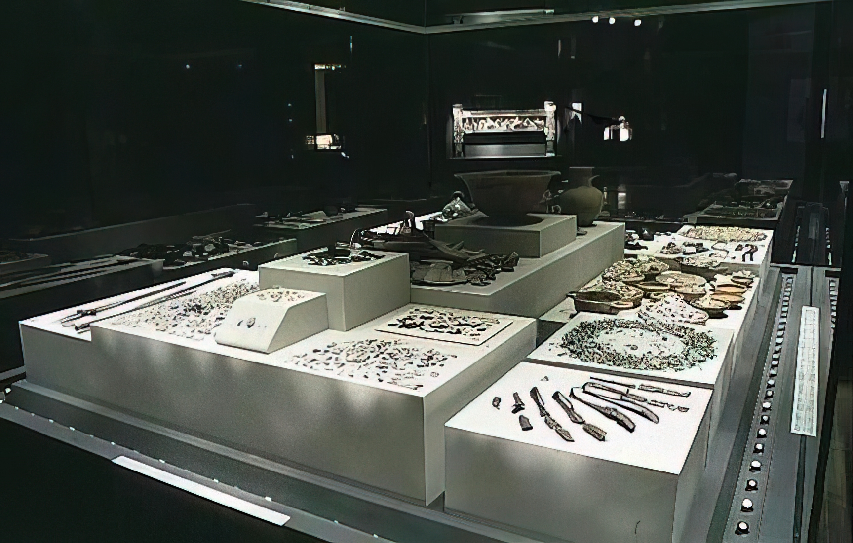 The Funerary Pyre of Philip II, image from the Royal Tombs, Vergina, Central Macedonia, Greece